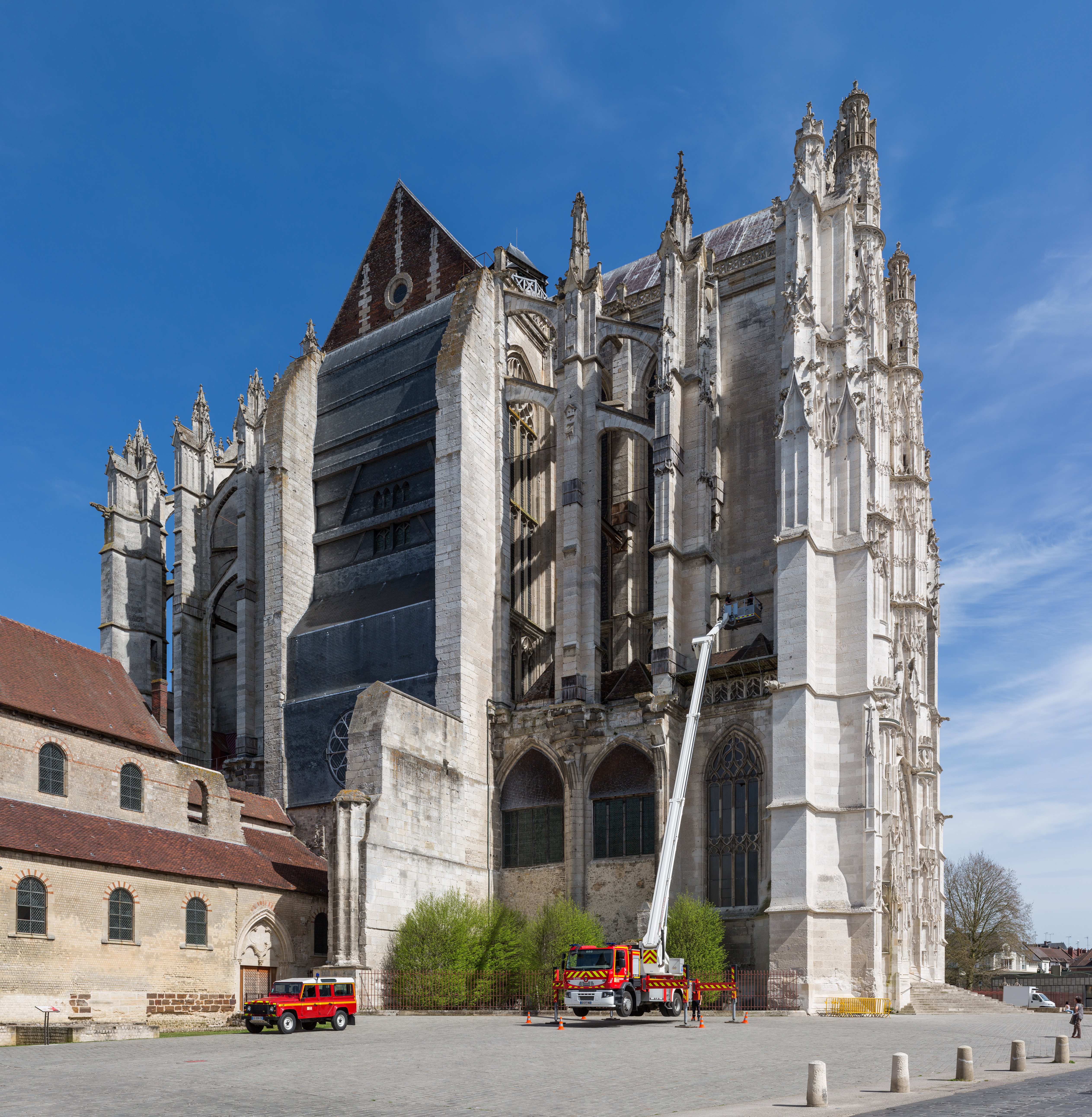 The exterior of Beauvais Cathedral in Picardy, France. The local Sapeur-Pompiers are conducting a training exercise involving an aerial platform to a height of approximately 20 metres.